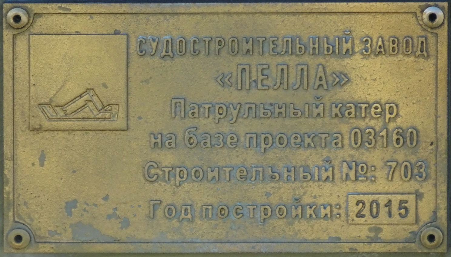 P-276 yard plate - Elements and parts - Yard plates and plaque boards (on shipboard) 28 February 2017